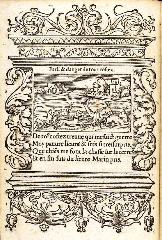 A hare assailed by land dogs and 'sea-dogs', an emblem titled "peril on all sides" from Gilles Corrozet's Hecatomgraphie (1540)